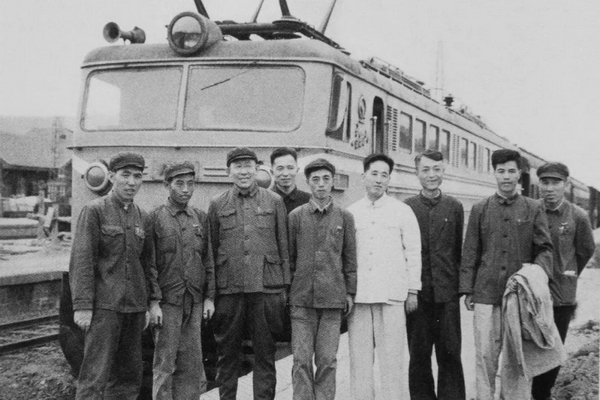 The opening of the first electrified railway in China on August 15, 1961. (Baocheng Railway, Baoji - Fengzhou section) 中文（中国大陆）: 1961年8月15日，中国首条电气化铁路宝成铁路宝鸡至凤州段通车。